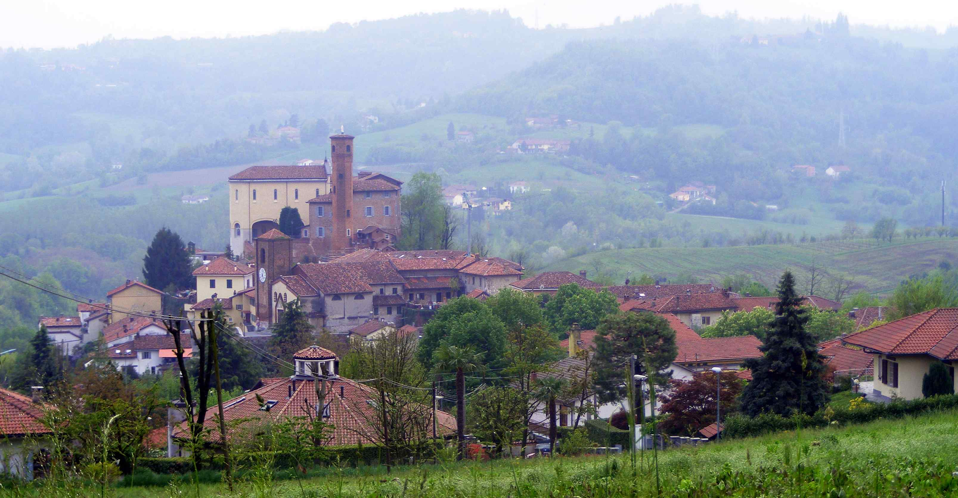 Rivalba (TO, Italy): panorama